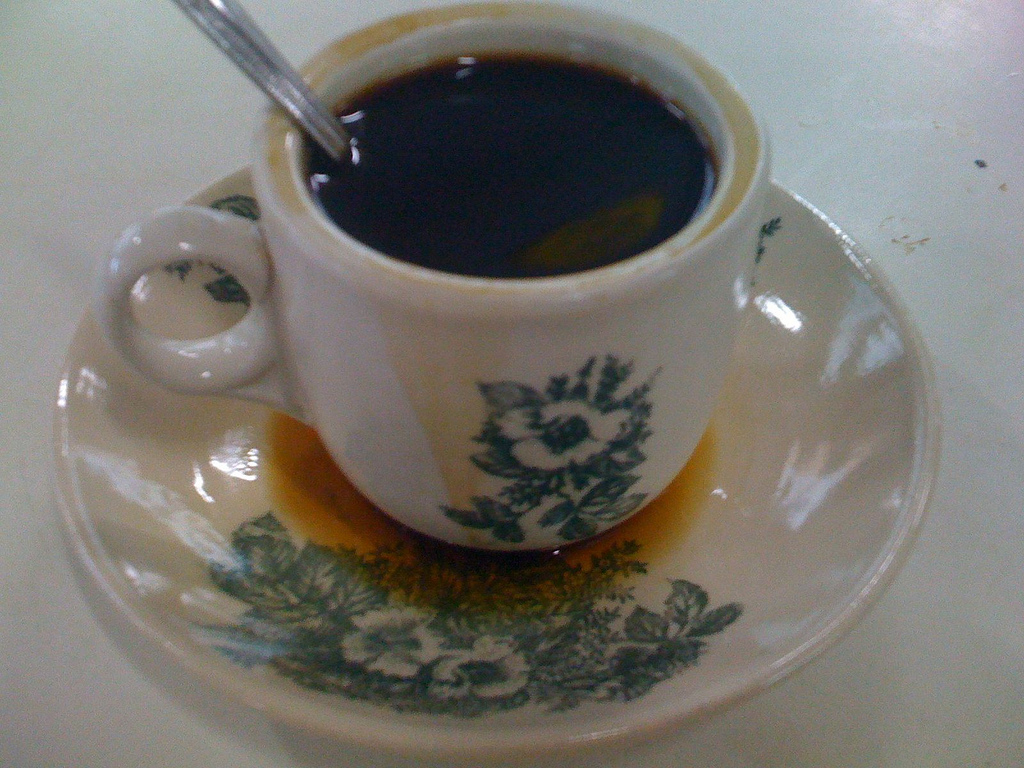 Traditional Kopi O commonly served in Malaysia and Singapore. It is black coffee served with sugar. The coffee beans are roasted with sugar and butter.